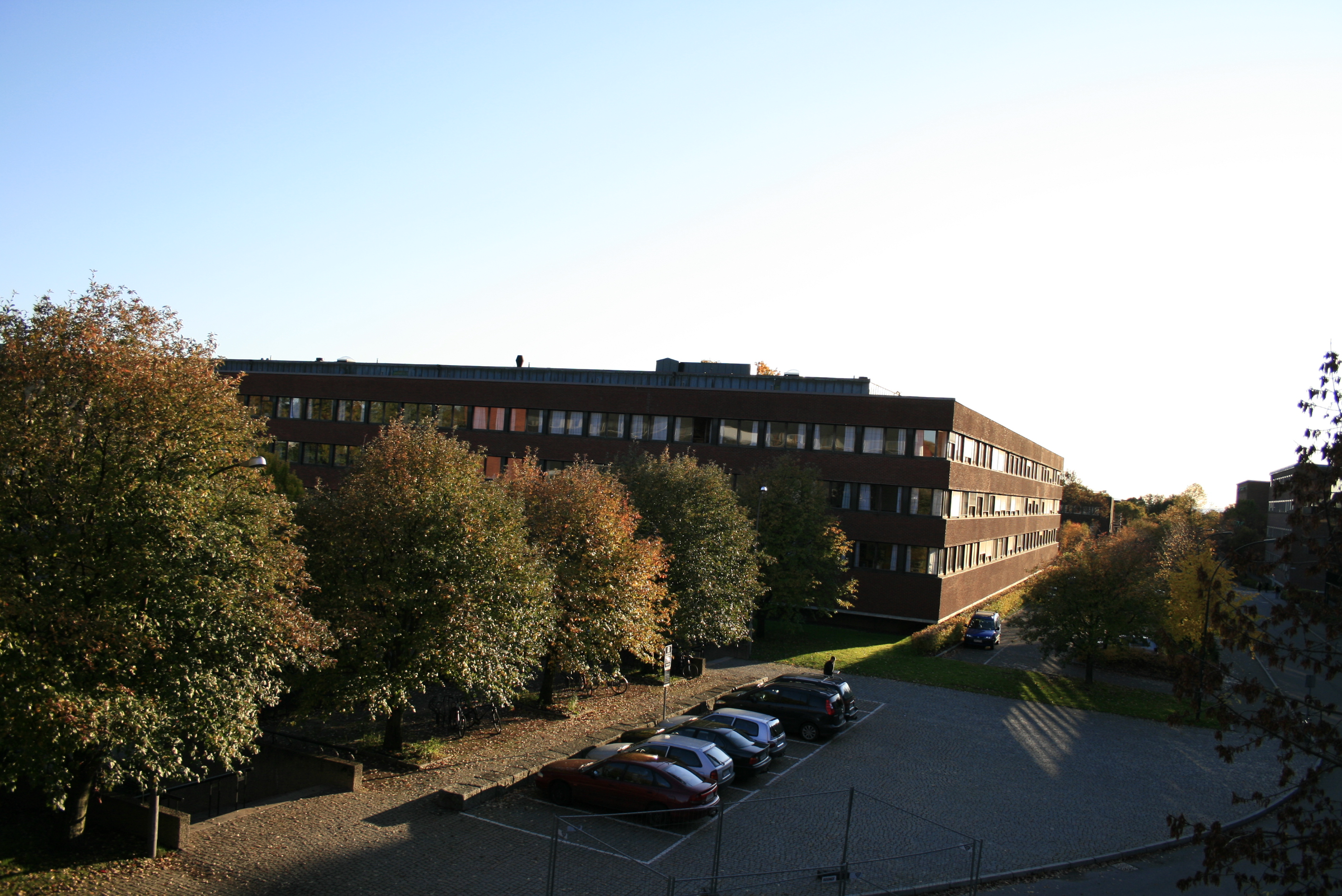 University of Oslo, Biological- and Molecularbiological institute, Blindern campus.